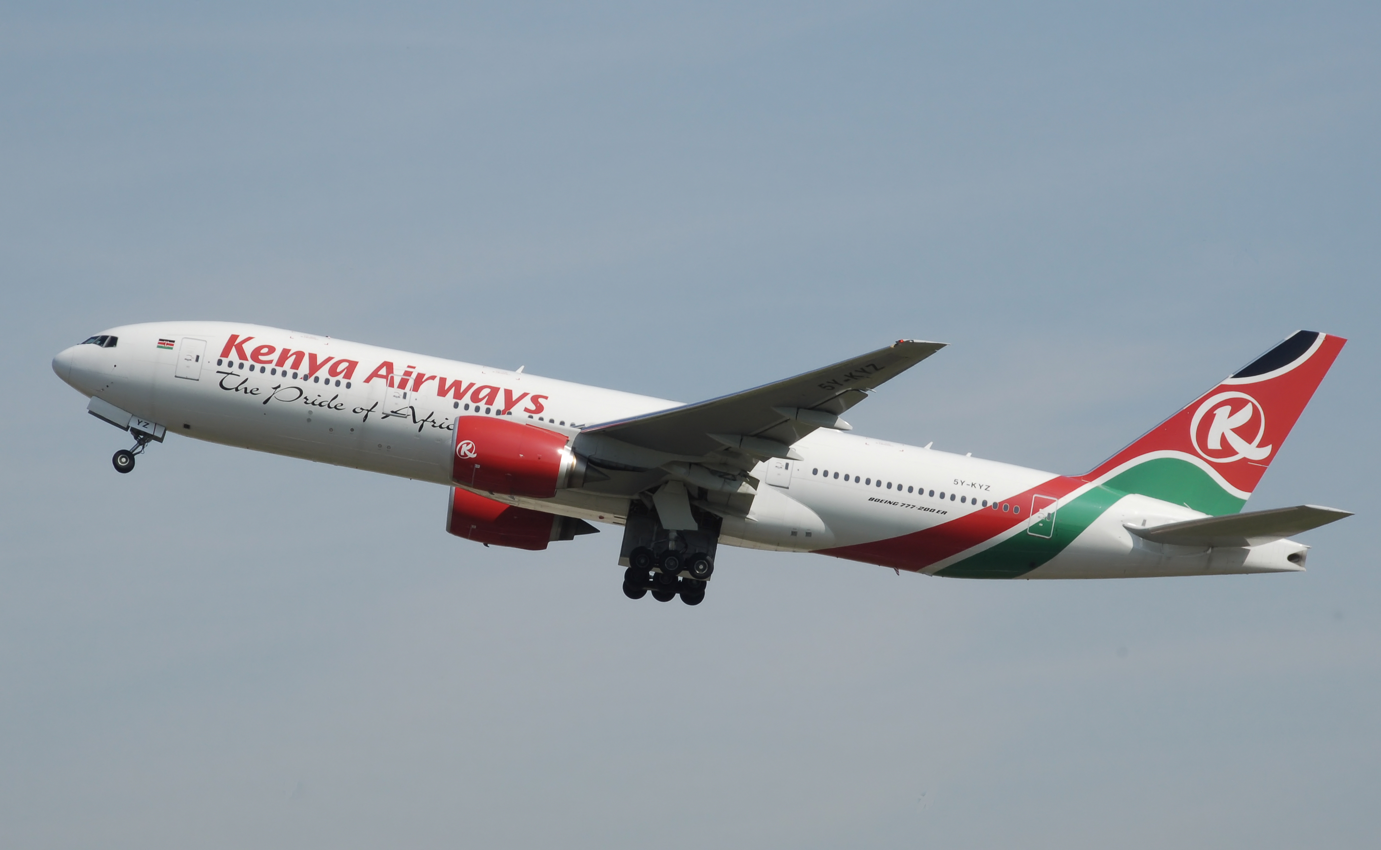 Kenya Airways Boeing 777-200ER (5Y-KYZ) taking off from London Heathrow Airport.